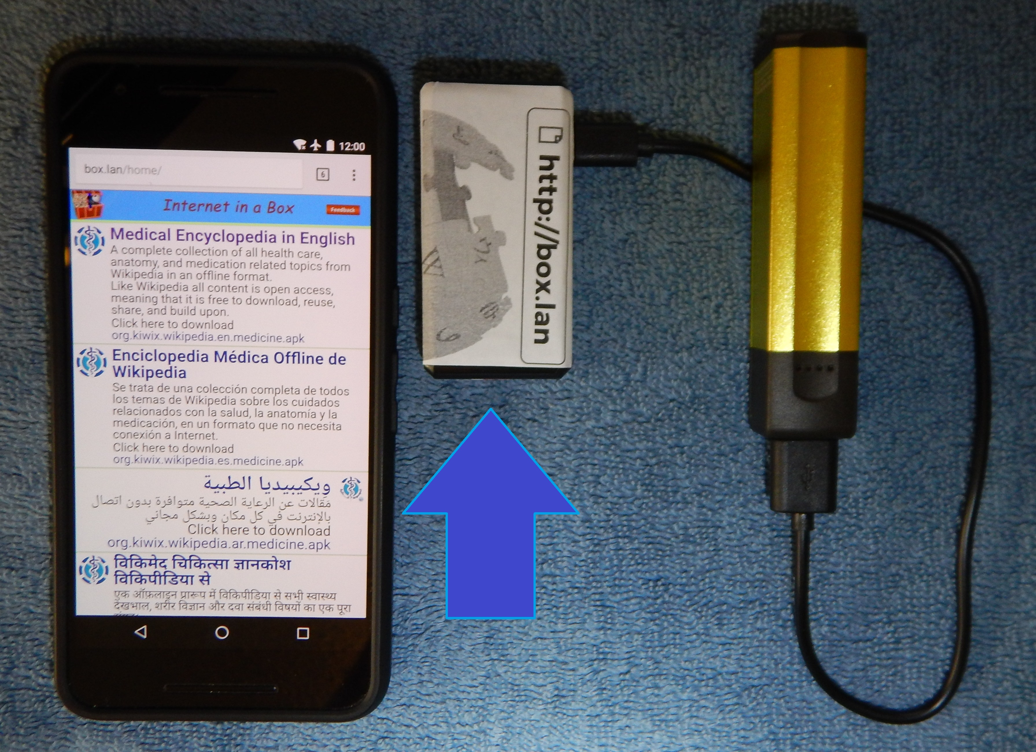 Internet-in-a-Box version 0.5